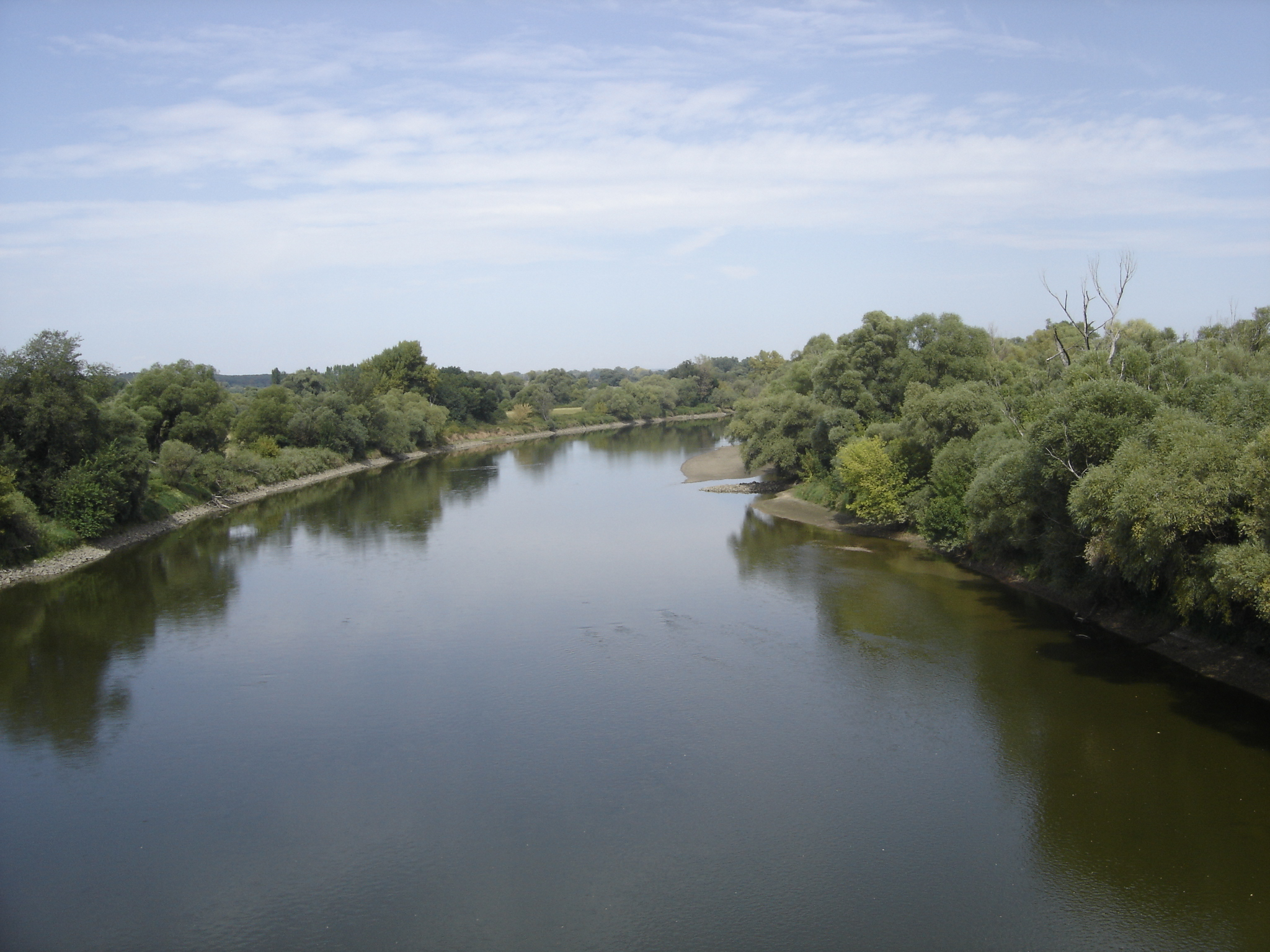 Bridge between Devinska Nova Ves (Bratislava, SK) and Schlosshof (A)